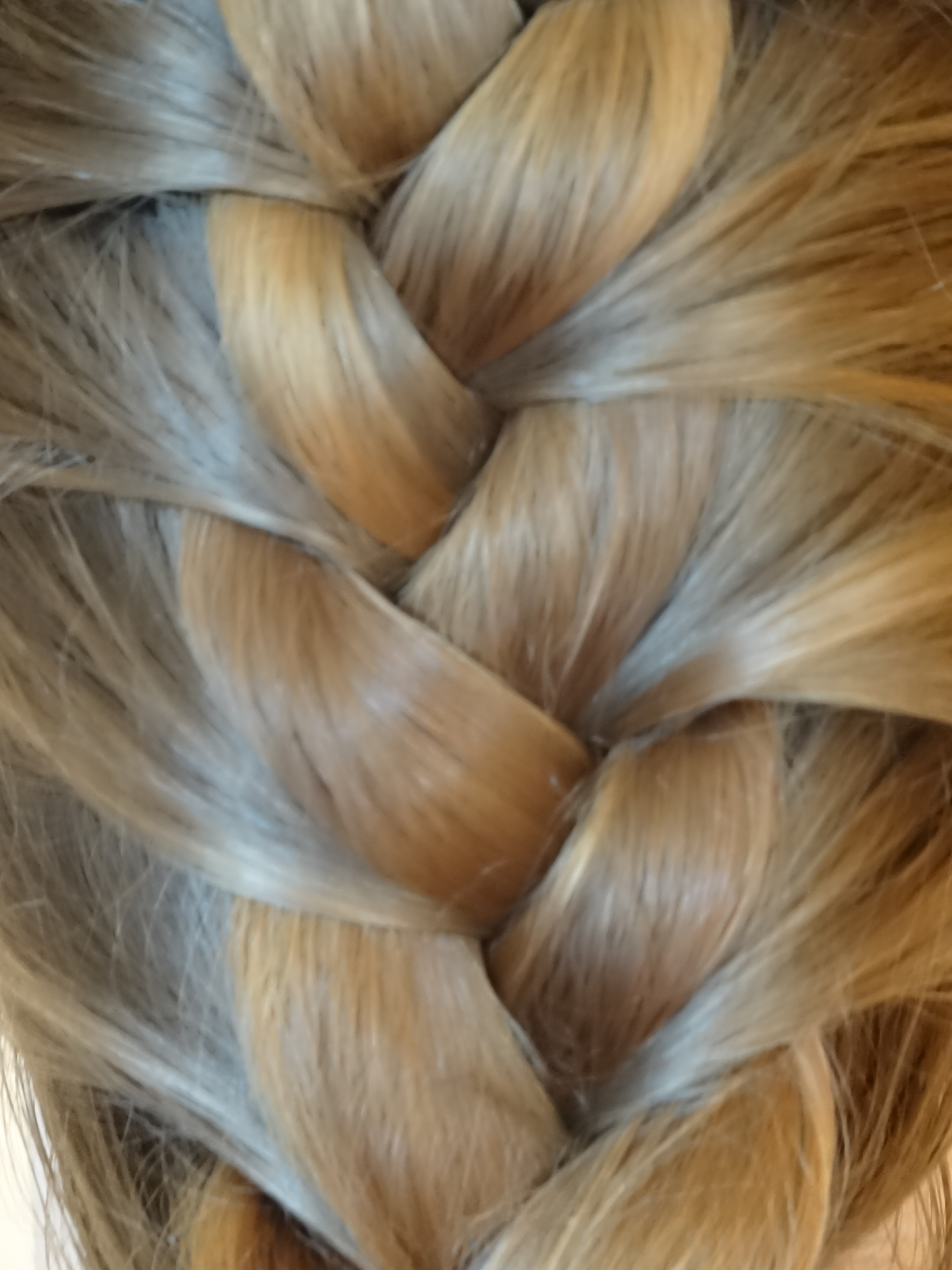 close-up of a french braid